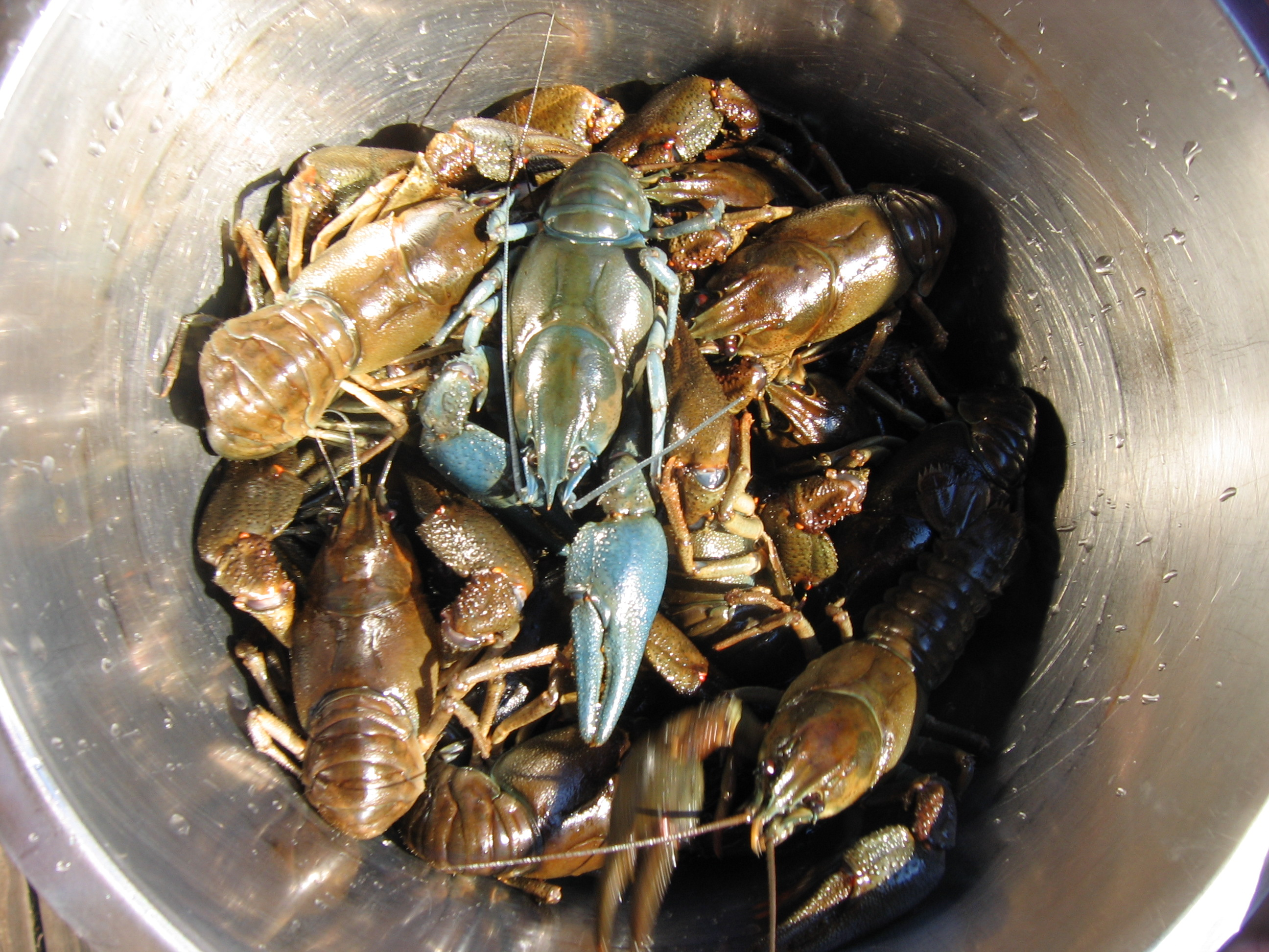 European crayfish (Astacus astacus) in a steel bowl. Photo taken in sunlight, in Helsinki, Finland, EU.